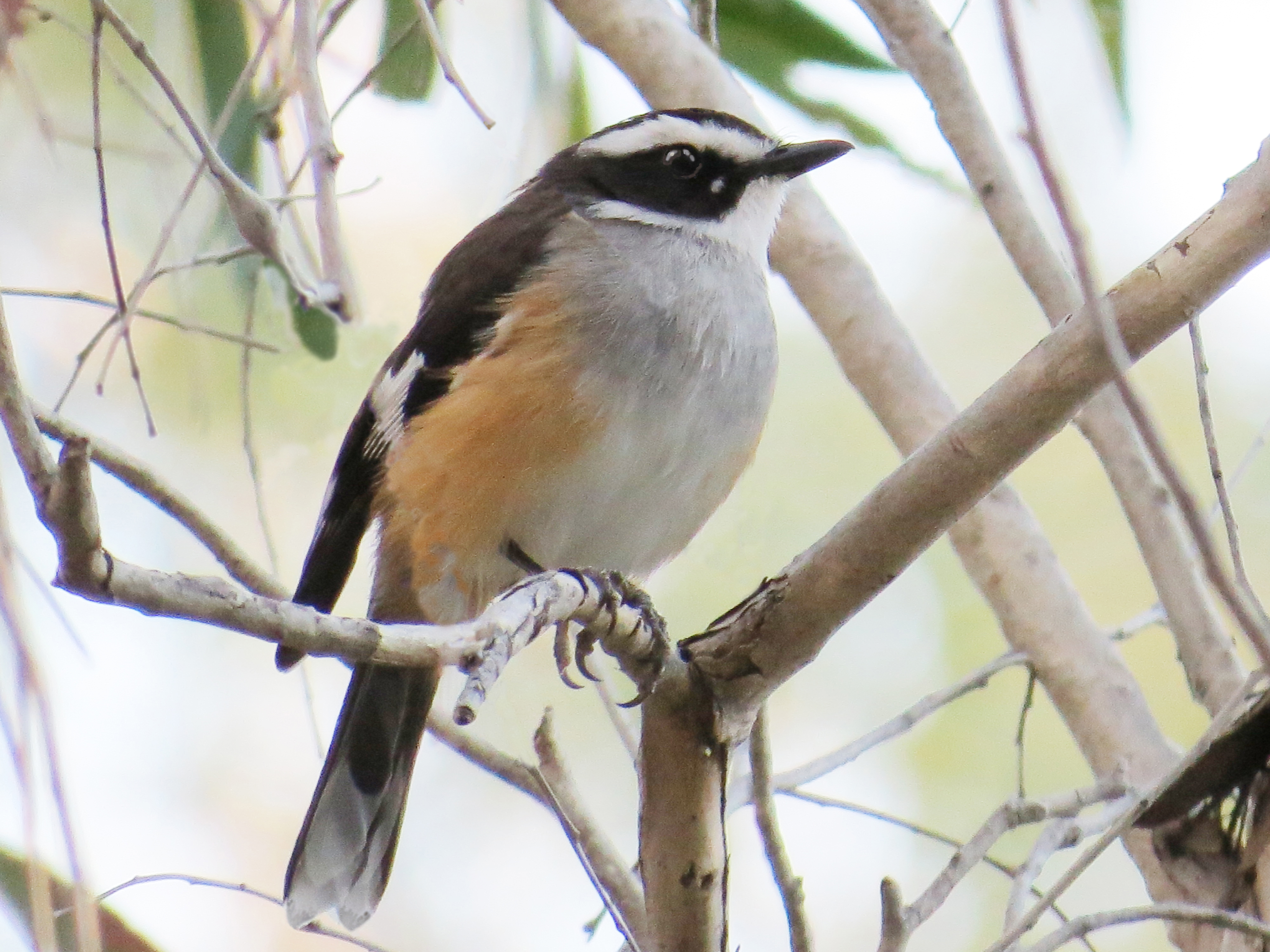 Buff-sided robin (Poecilodryas cerviniventris) on the Gregory River, Queensland, Australia. It is the Buff-sided form of the White-browed robin.